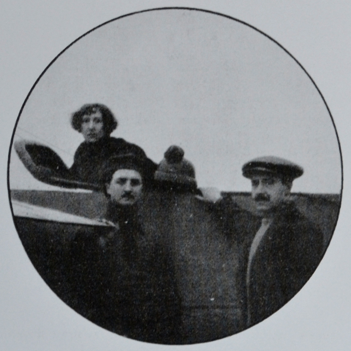 Aviatrix Rosina Ferrario.